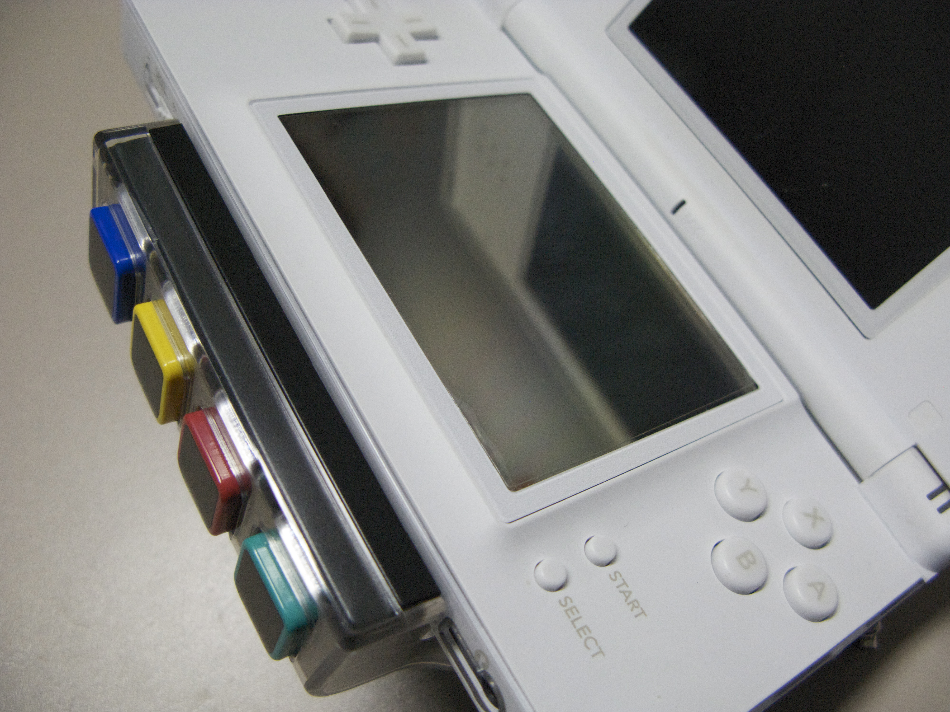 Another side to the add on